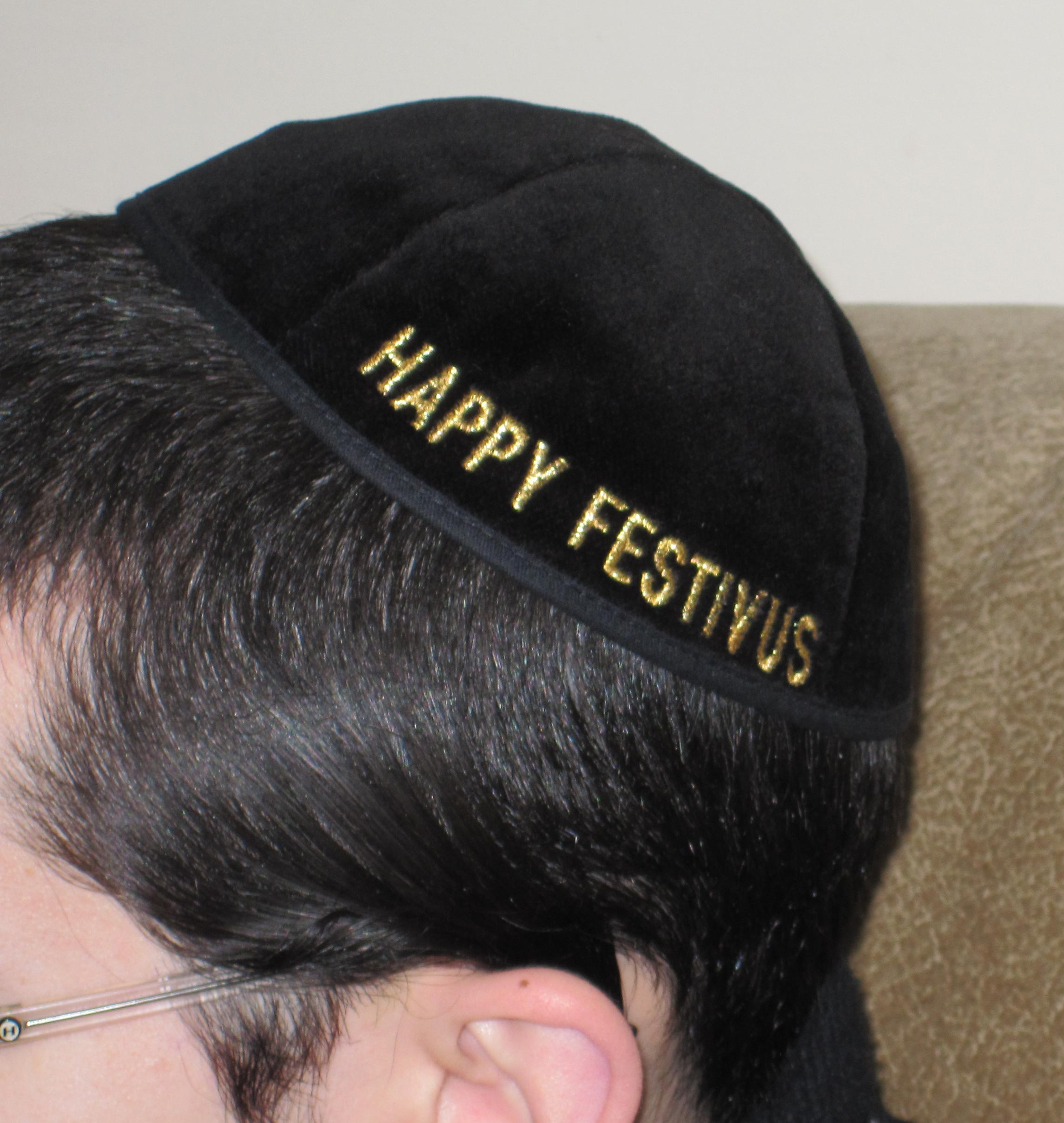 Yarmulke with Happy Festivus embroidery